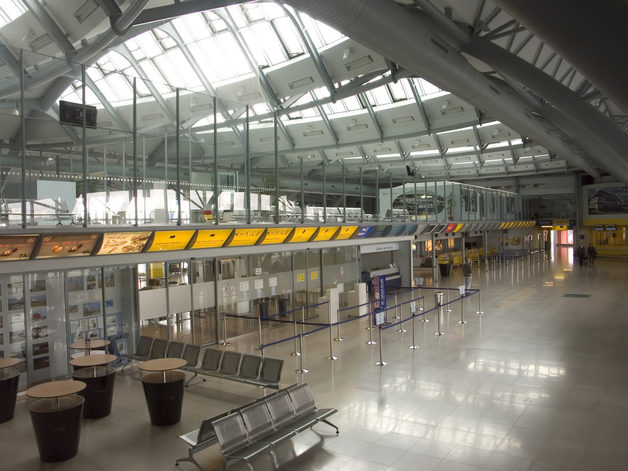 Interier of departure termnal of Brno-Tuřany Airport